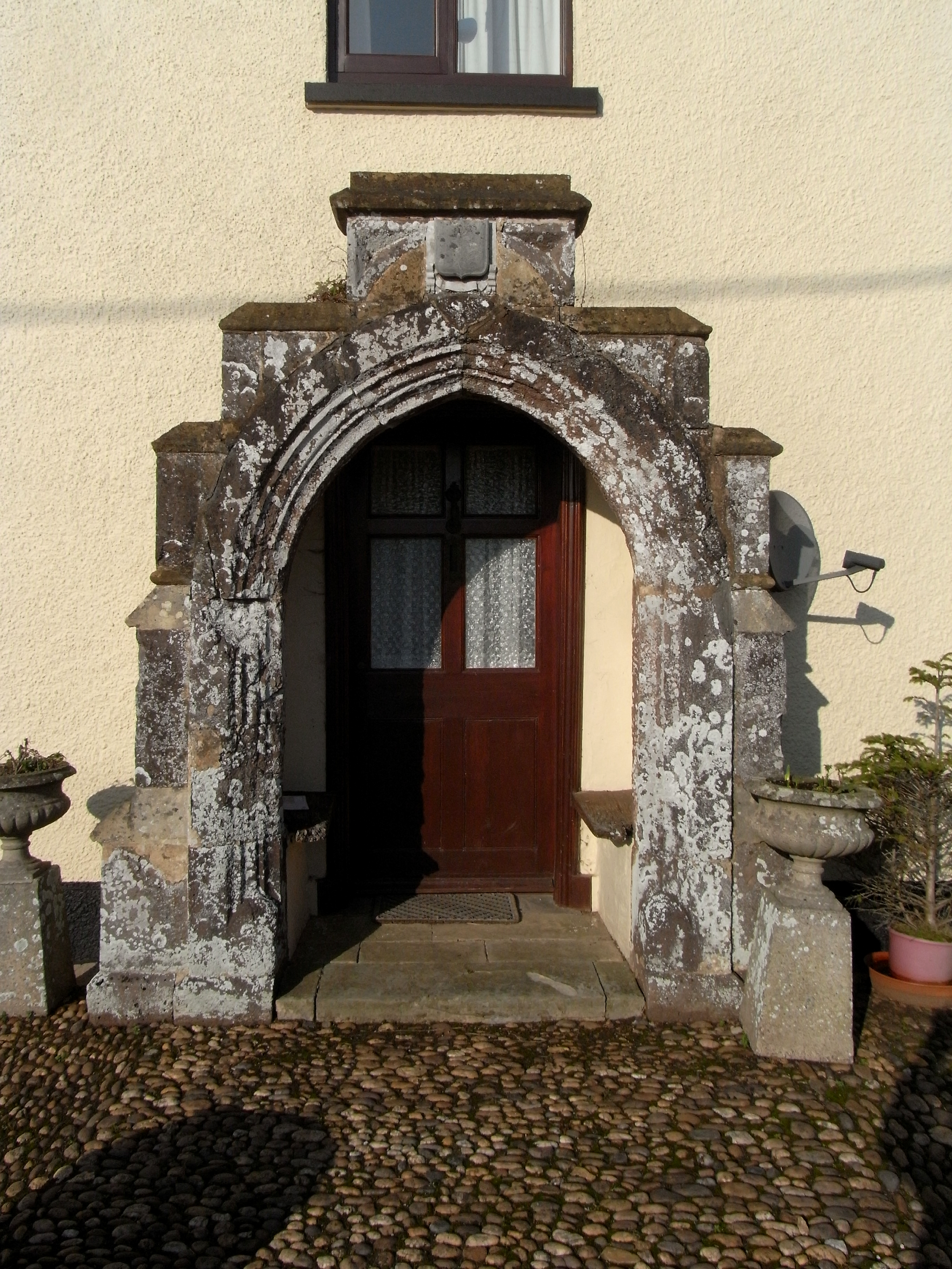 Entrance porch of "Moorhayes Farm" in the parish of Cullompton, Devon, remnant of the ancient mansion house of the Moore family, viewed in 2017. Reset medieval arch probably taken from the chapel formerly attached to the house. (Source: Listed building text "Higher Moorhayes Farmhouse Including Front Garden Wall, Cullompton"[1])